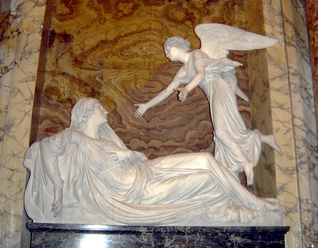 Mathieu Kessels, Funerary monument for the Comtesse de Celles (1828), Church of San Giuliano dei Fiamminghi, Rome, Italy